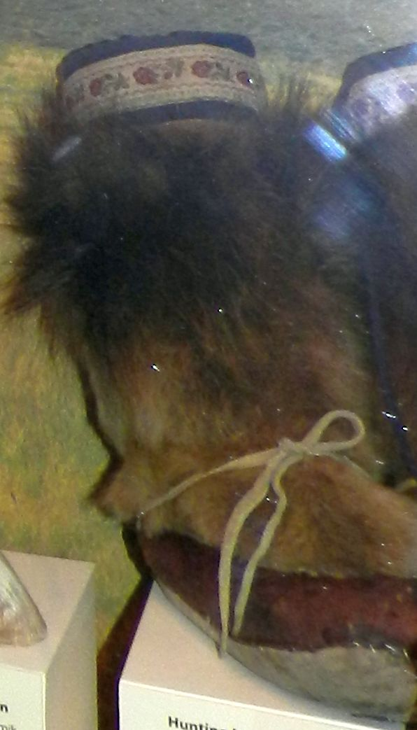 Muskox clothing (cropped version) „Hunting boots, made by Agnes Kuptuna, Sachs Harbour The boots are made from m[...] about for pieces sewn together [...] my husband's skidoo broke[...] 70 miles north of here. These [...] kept his feets from freezing. Agnes Kuptana, Sachs Harbour“